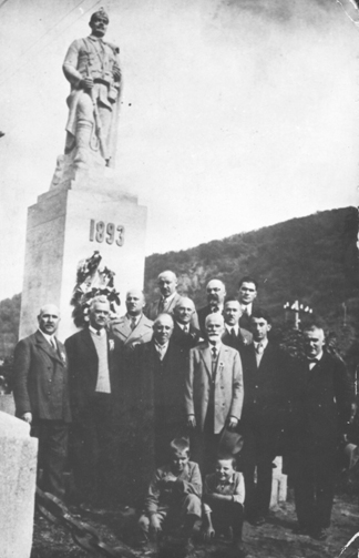 Monument of the unknown macedonian chetnik in Gorna Dzhumaya